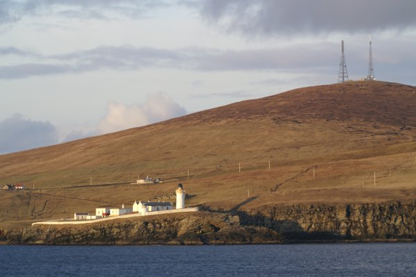 Bressay Lighthouse and Ward of Bressay on Bressay, Shetland, Scotland